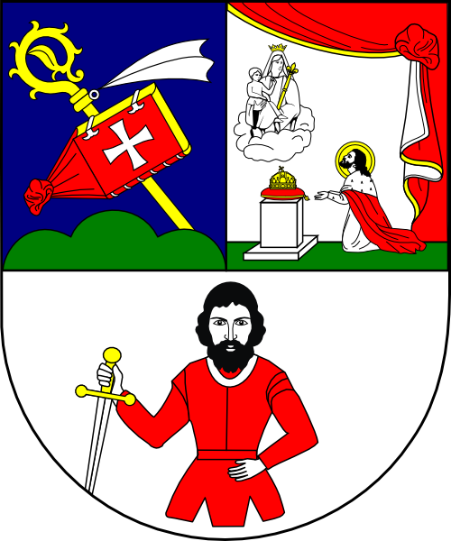 Coat of arms (shield only) of Othmar Helferstorfer, abbot of Schottenstift (Scottish Abbey), Vienna and Telky Abbey, Hungary (1861 - 1880). Based on ZELENKA, Aleš: Die Wappen der wiener Schottenäbte, p. 28 - 29 and on this